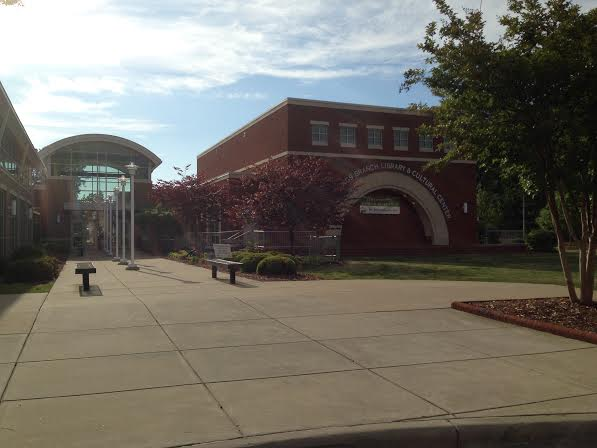 Public Library located in Holly Springs, North Carolina. Only library located in the town of Holly Springs.